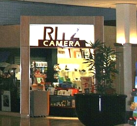 A Ritz Camera photographic retail store at the Westfield Plaza Camino Real, 2525 El Camino Real #125, Carlsbad, California. This store closed in the early 2010's as a result of the company's bankruptcy. The photograph was taken with a Canon EOS 350D digital camera and edited (color balance, brightness, contrast, saturation) using ArcSoft PhotoStudio 5.5